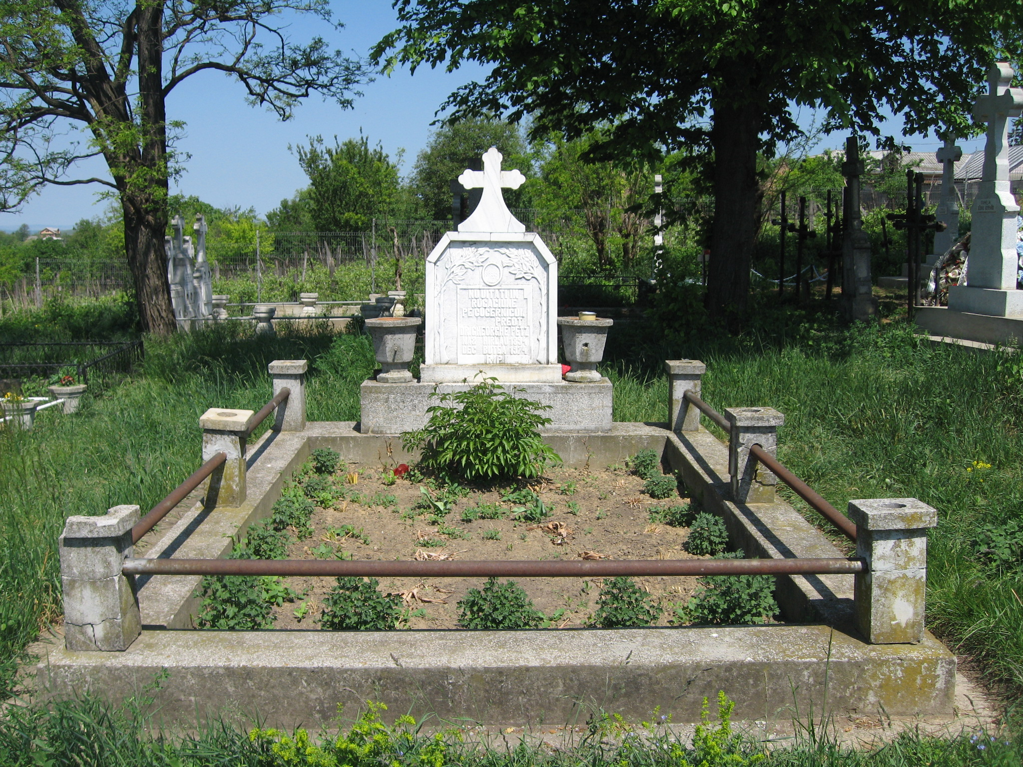 Tomb of Father Gheorghe Petz - Ordinarius Substitutus of Diecese Catholic of Iaşi